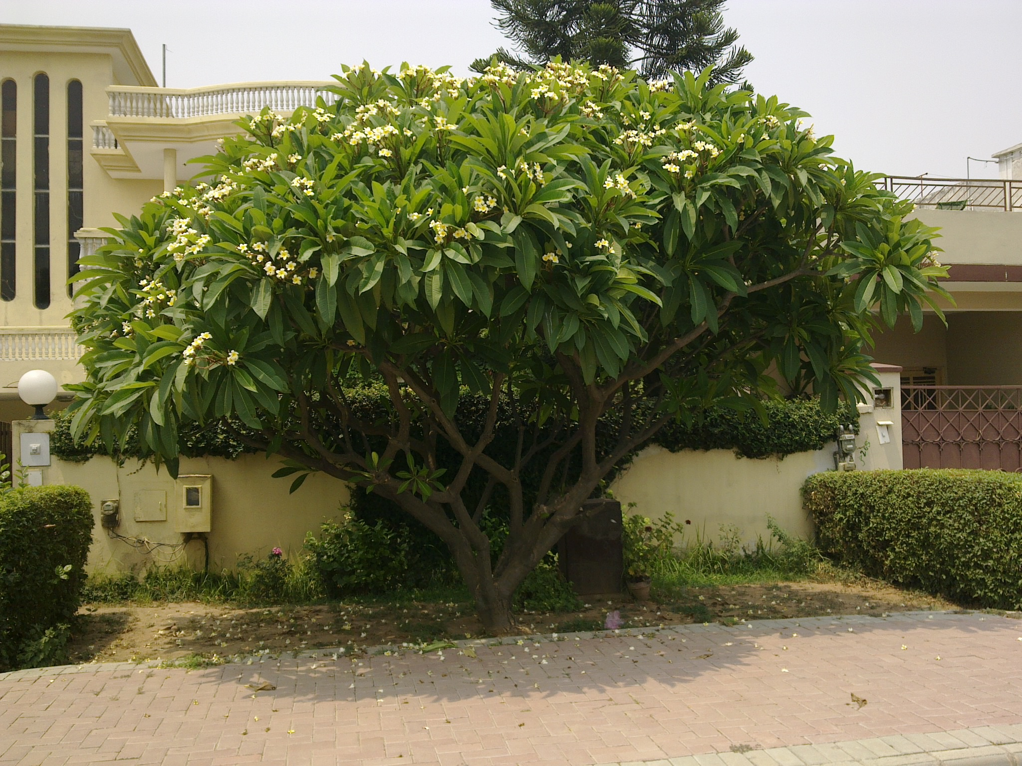 Champa tree with yellow flowers in Islamabad, Pakistan.